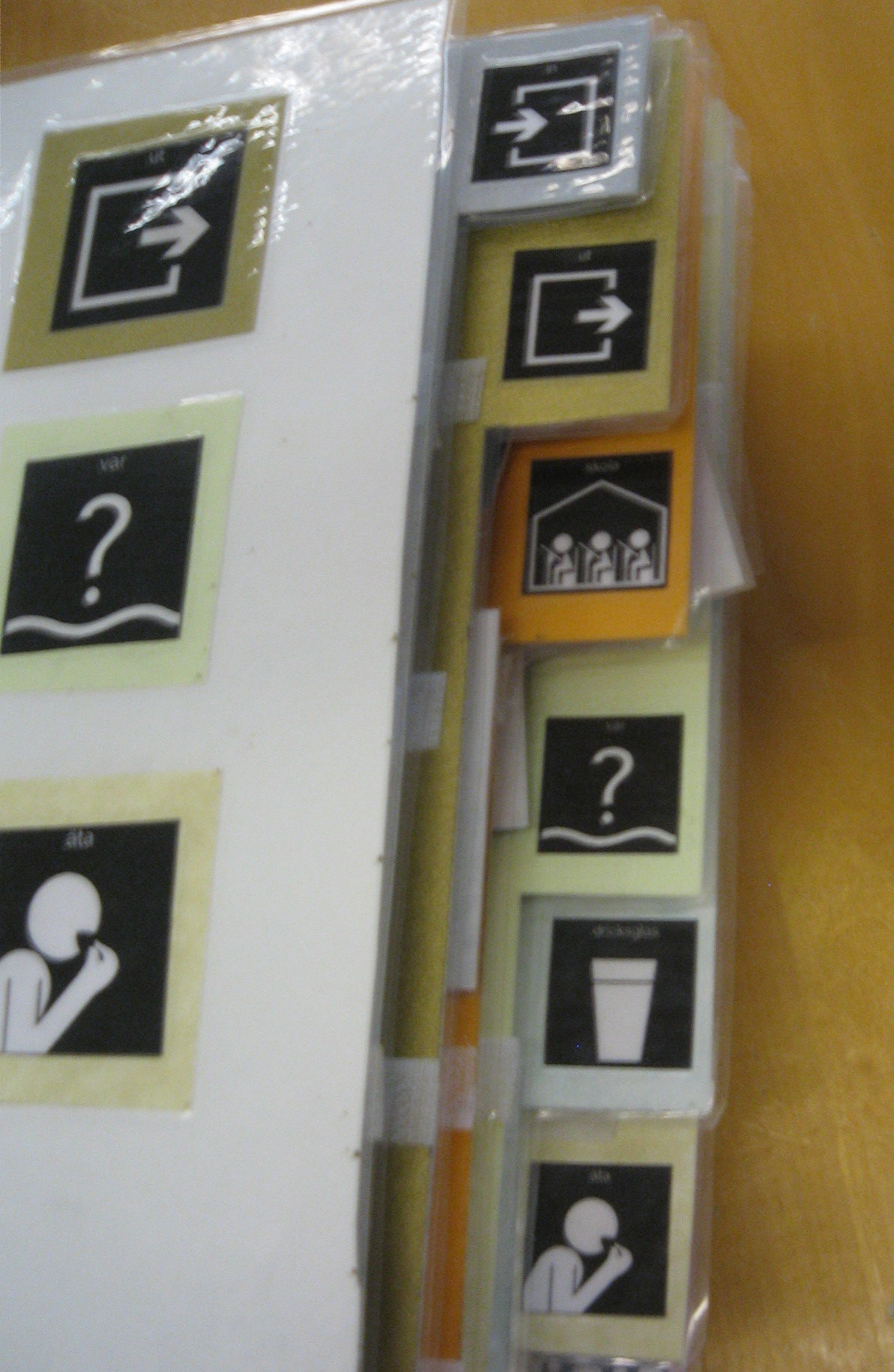 PIC symbol system